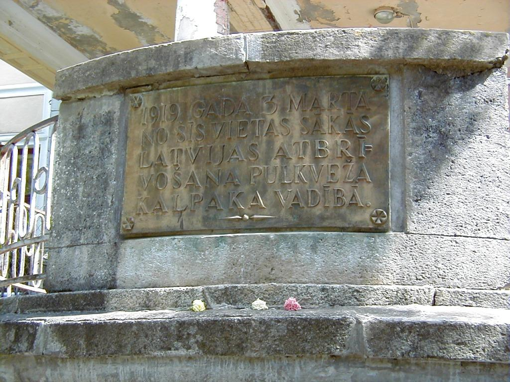 Latvian War of Independence Memorial Plaque on Rudbārži Palace